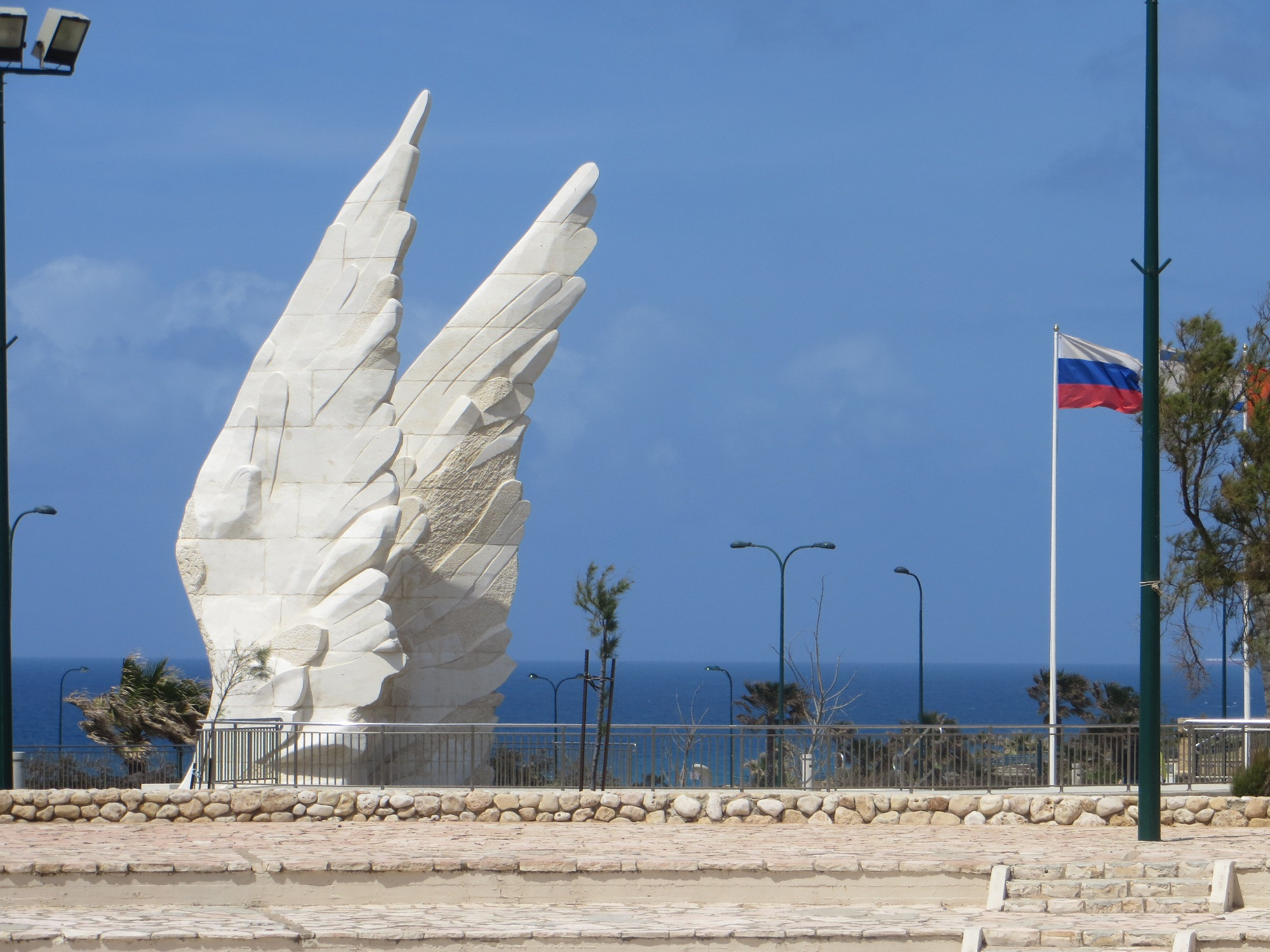 Wings of light and freedom - Victory Monument in N, Geography of Israel